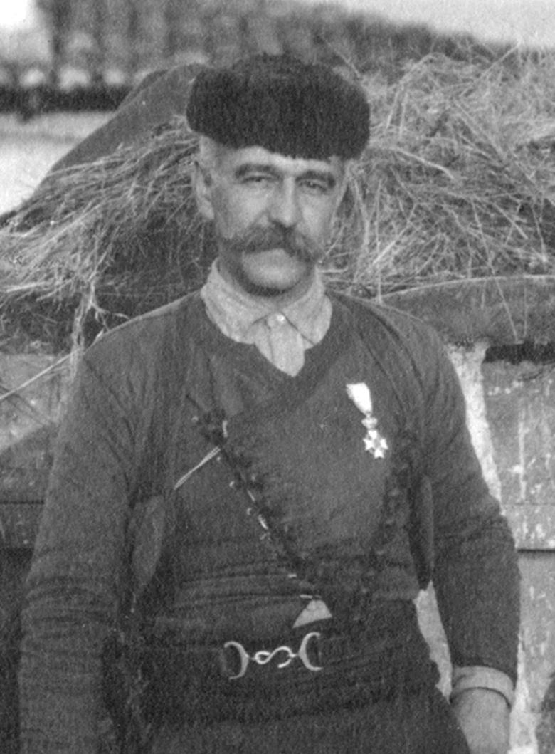 Konstantinos Manos in Philipiada, Dec.1912.